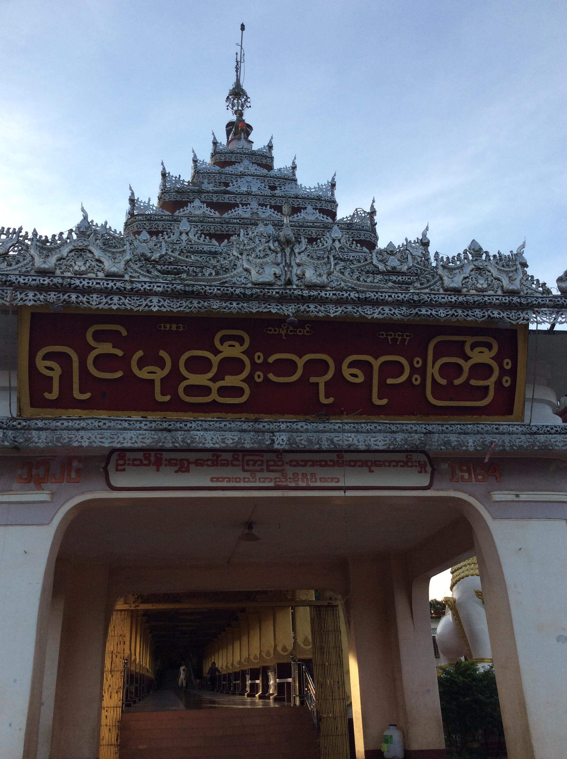 Shin Mote Htee Pagoda, Shin Mote Htee Village, Dawei Township, Tanintharyi Region မြန်မာဘာသာ: ရှင်မုတ္ထီးဘုရားကြီး၊ ရှင်မုတ္ထီးကျေးရွာ၊ ထားဝယ်မြို့နယ်၊ တနင်္သာရီတိုင်းဒေသကြီး